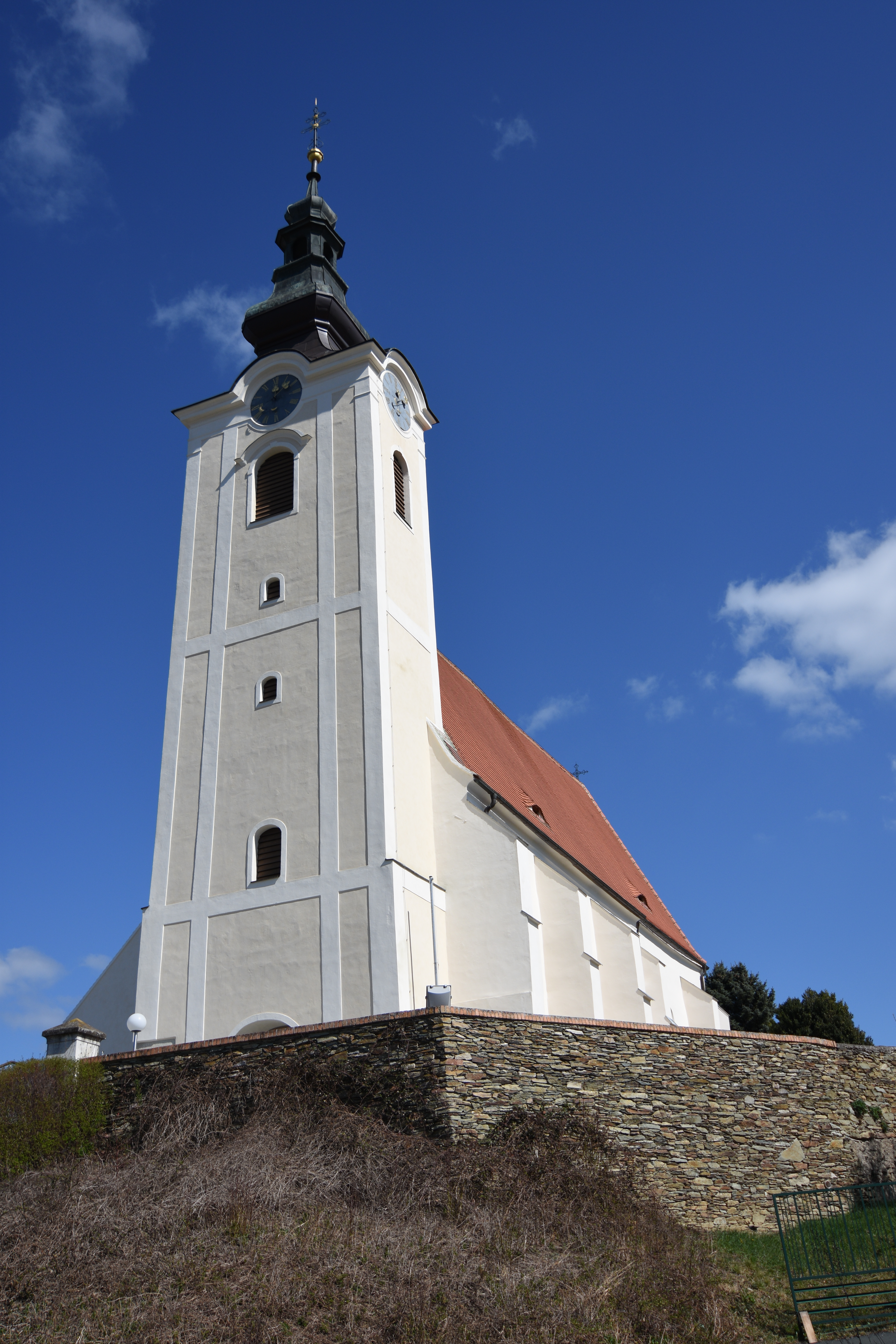 Church Neumarkt im Tauchental